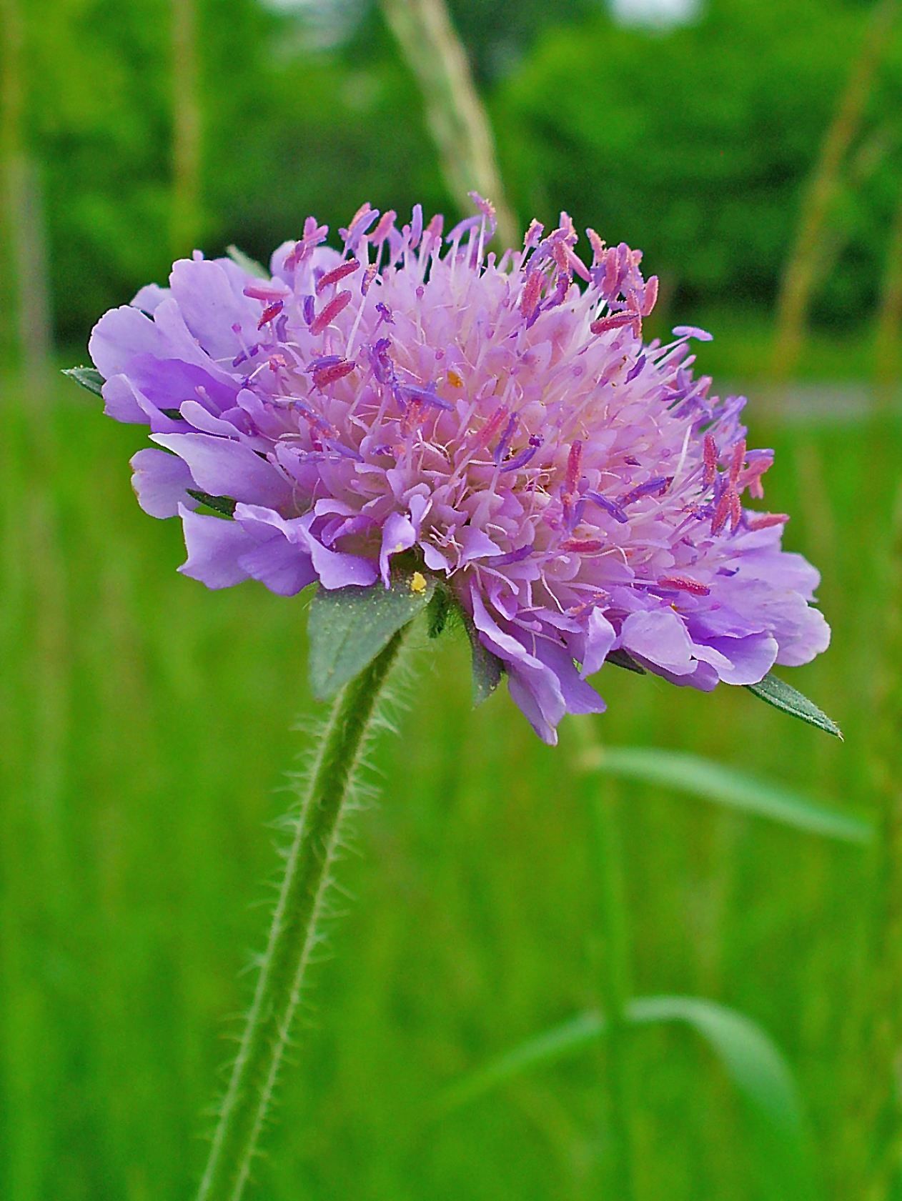 Knautia arvensis, Dipsacaceae, Field Scabious, Inflorescence; Karlsruhe, Germany. The the fresh, aerial parts at bloom are used in homeopathy as remedy: Knautia arvensis (Knaut.)